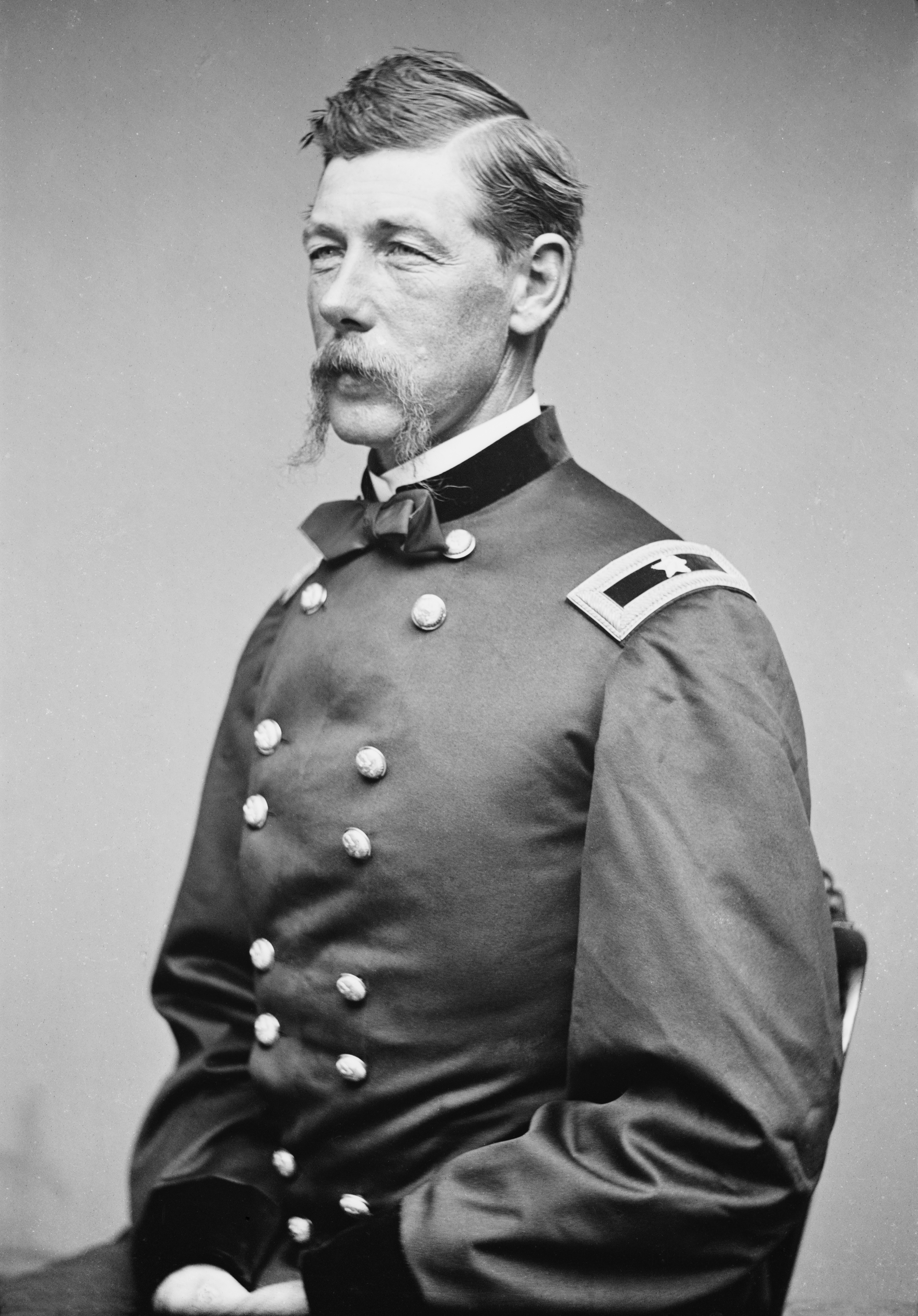 Alexander Shaler (1827–1911) was a Union Army general in the American Civil War. He received the United States military's highest decoration, the Medal of Honor, for his actions at the Second Battle of Fredericksburg. After the war, he was at various times the head of the New York City Fire Department, president of the National Rifle Association, and mayor of Ridgefield, New Jersey. Caption on negative in US Library of Congress is "Gen. Alex Shaler of N.Y."